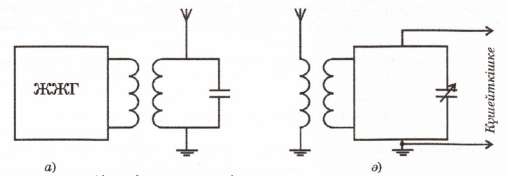 Fizika 3.18